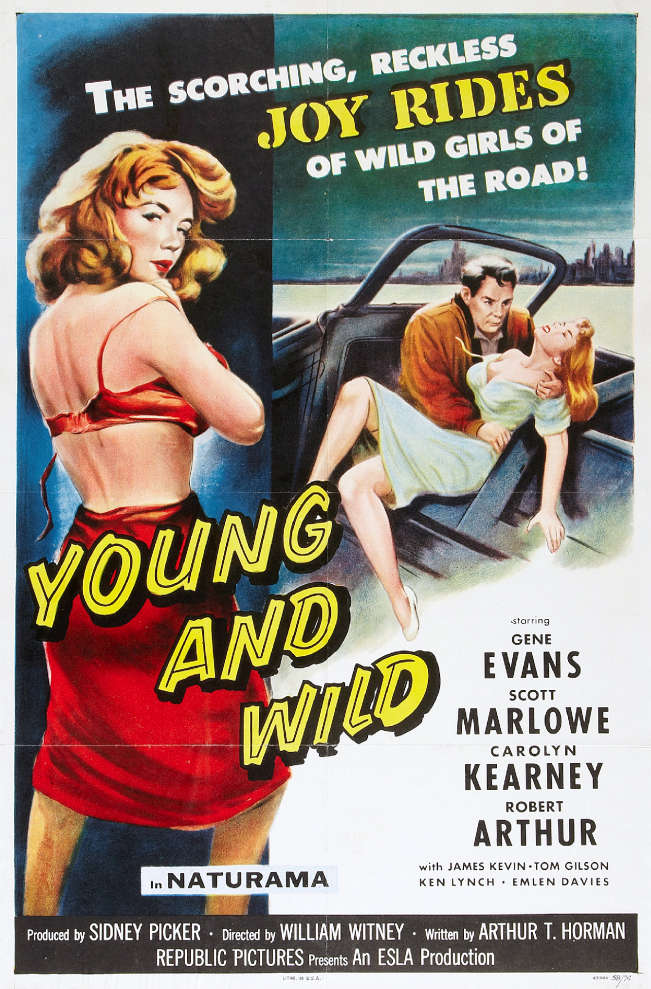 Poster for the 1958 film Young and Wild. There are no copyright marks. At bottom is Litho in USA and 49906 58/74.